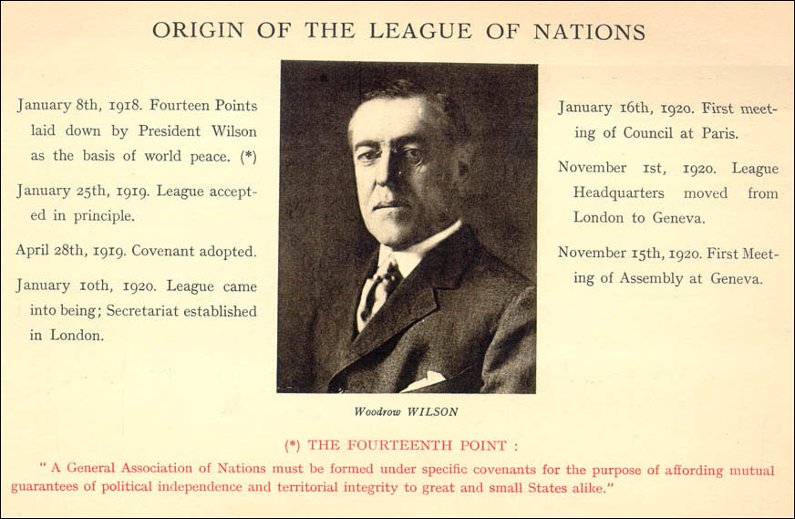 The League of Nations: A Pictorial Summary, Geneva: League of Nations, c. 1920. Detail from poster.